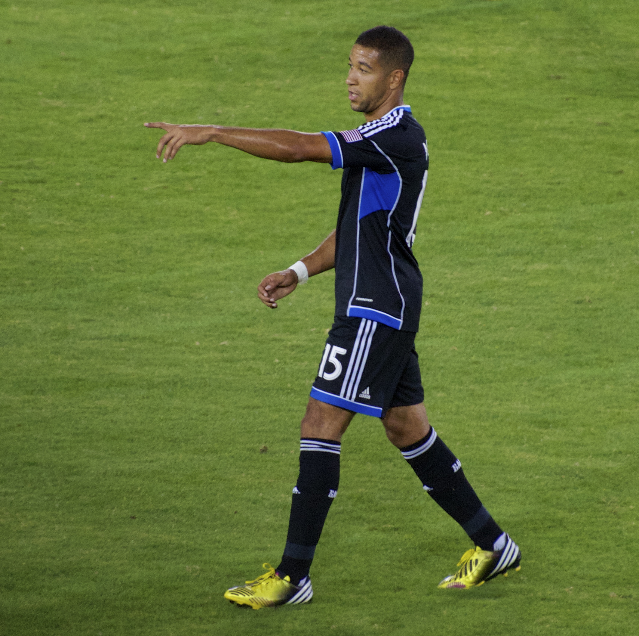 Justin Morrow, Stanford Stadium, LA Galaxy vs SJ Earthquakes, Saturday 2013-06-29